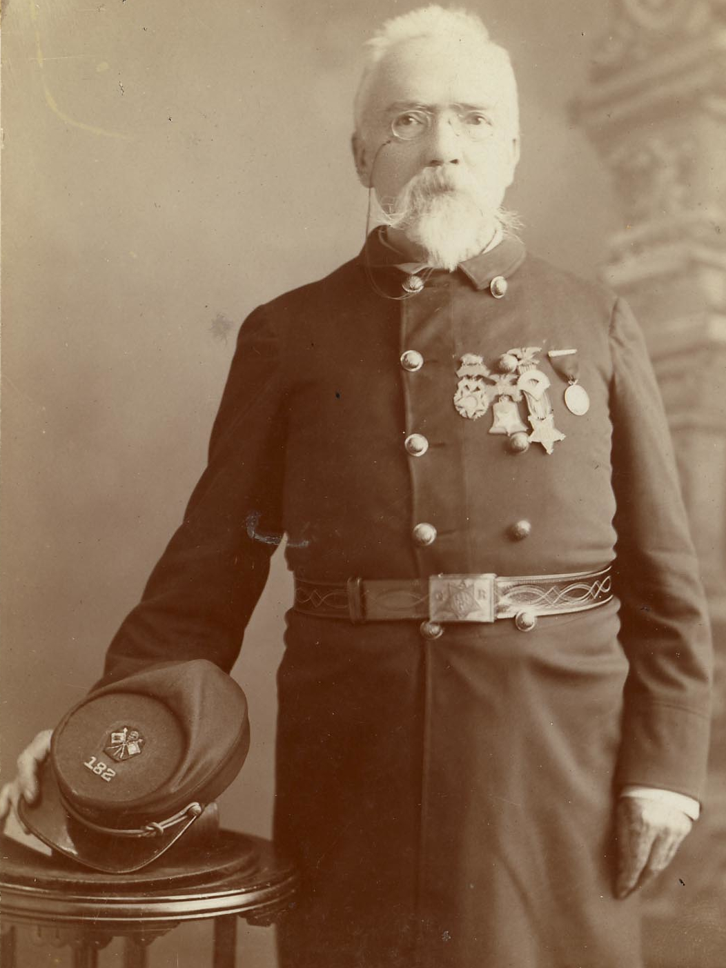 Cropped photograph of Colonel Thomas Joseph Kelly (1833-1908)